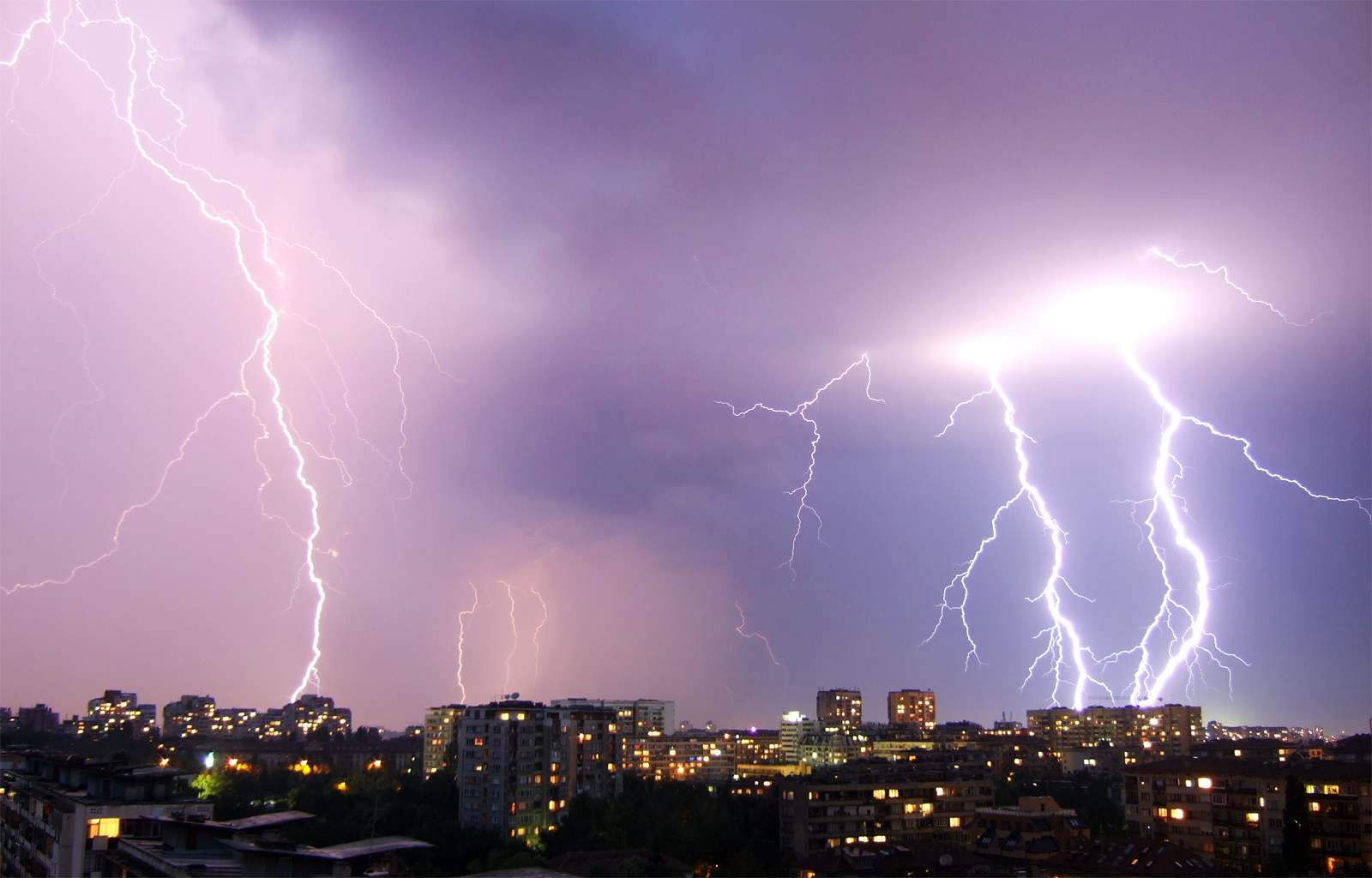 Amazing frequency that night - 2 to 5 lightning strikes each 10 seconds! Those three images are actually composites of 2-3 photos each, made with Autopano Pro (used for aligning the shots and rendering to layered PSD file).